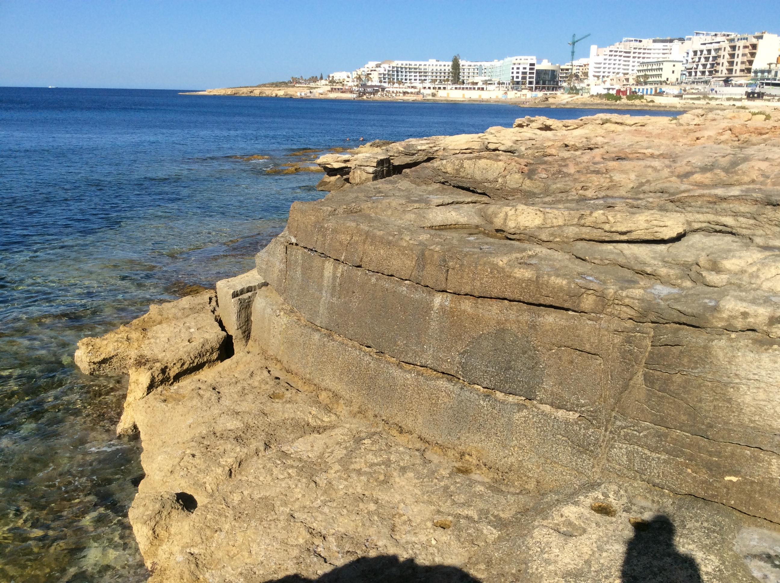 Bugibba Battery This media is about Maltese cultural property with inventory number 01400.